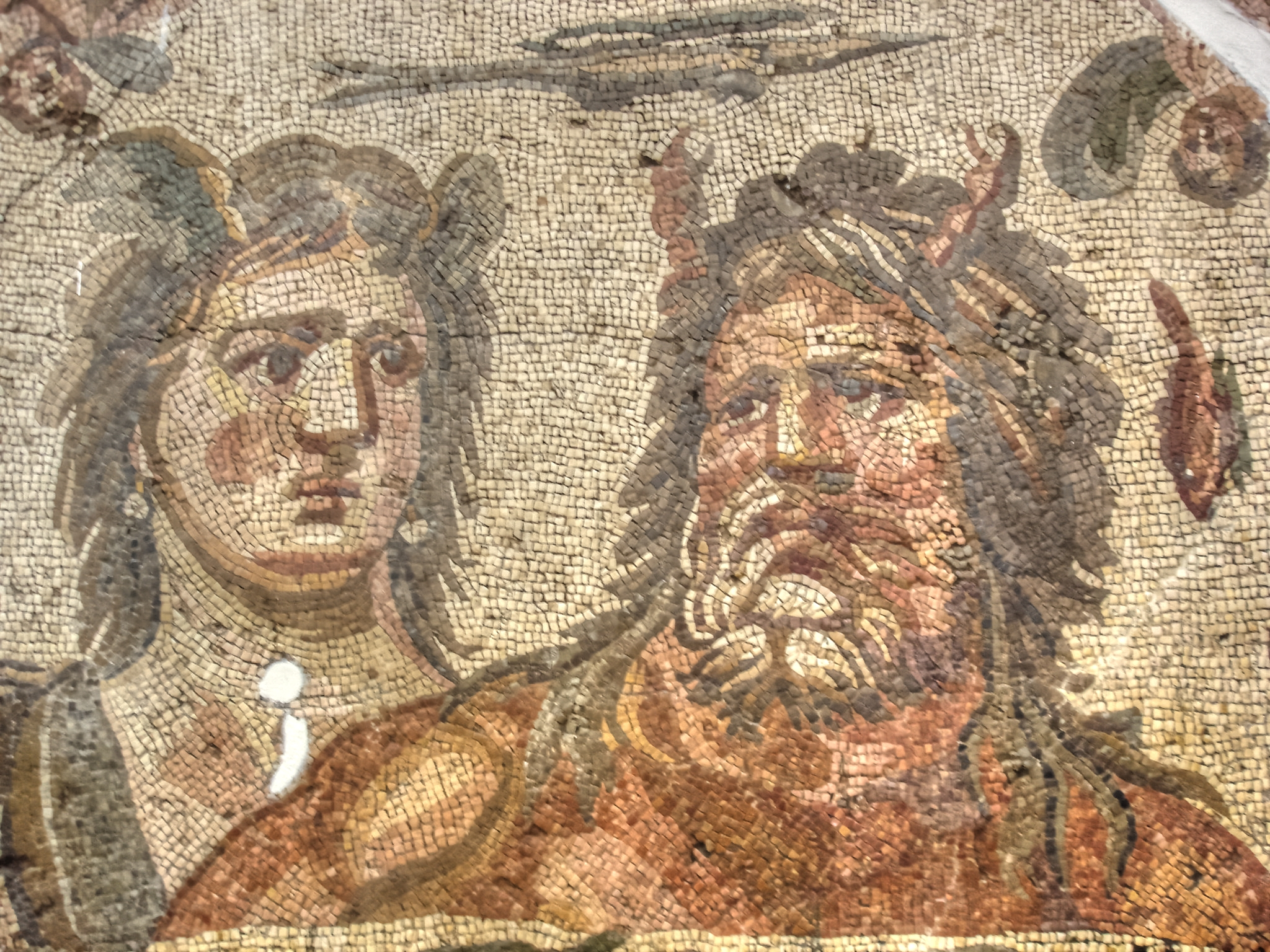 Photographs from Antakya Archaeological Museum. Oceanos, with crab-claw horns, and his wife Tethys.